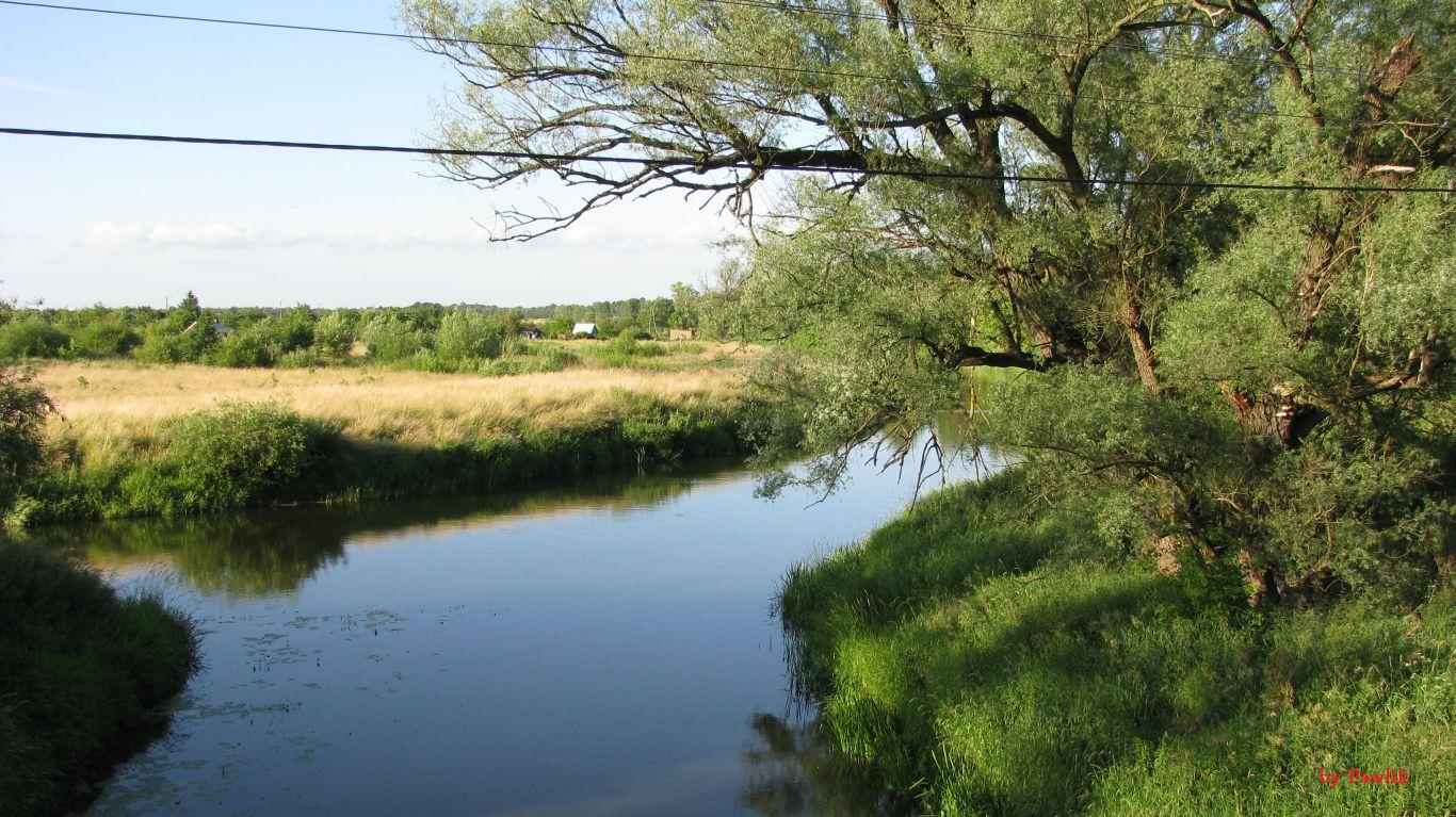 łyna and guber rivers